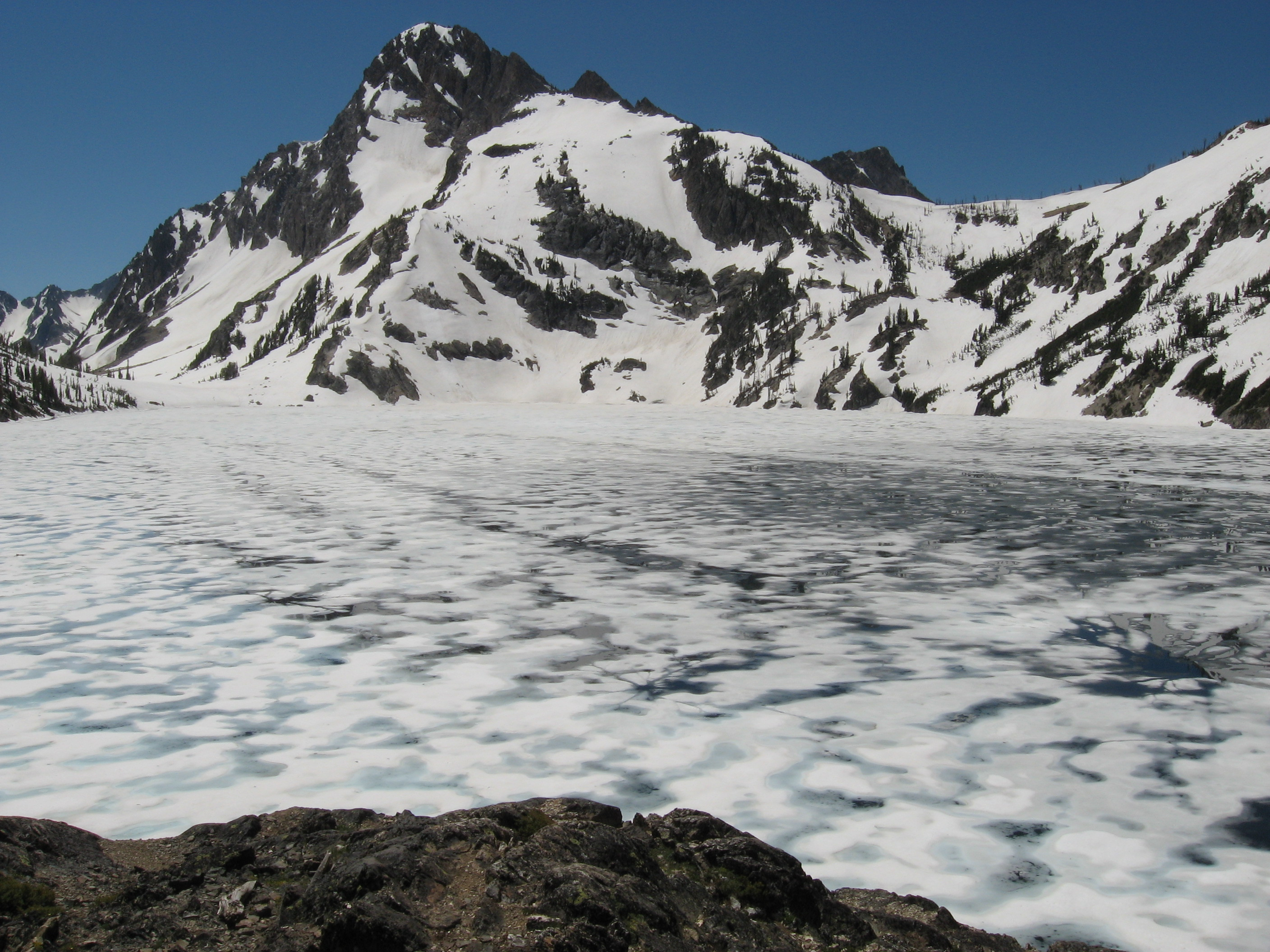 Sawtooth Lake and Mount Regan in the Sawtooth mountain Range of Idaho, United States.